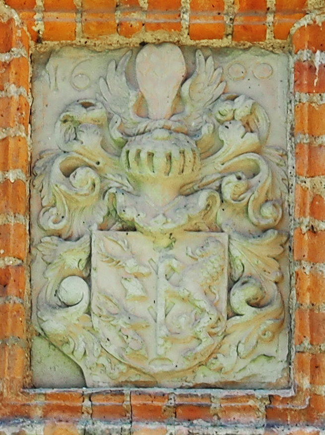 Kryszpin coat of arms